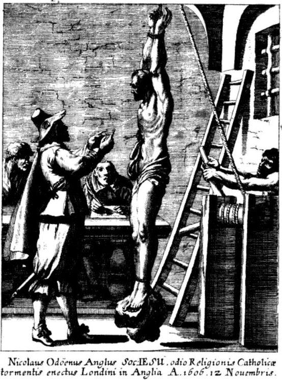 St Nicholas Owen being tortured in the Tower of London in 1606.